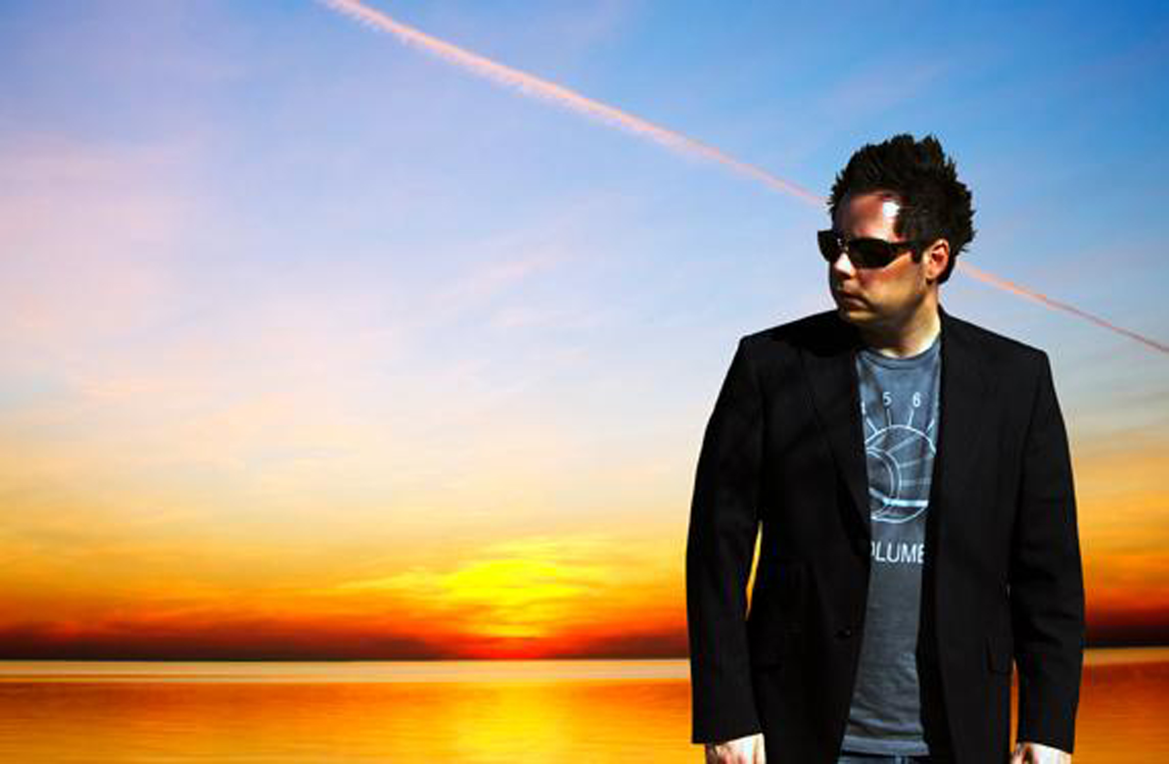 Part of a press kit created by Ryan Farish and RYTONE Entertainment for use in a press kit with his release "Movement in Light", released on April 6th, 2009.